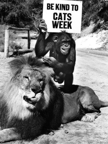 Publicity photo of Clarence the cross-eyed lion and Judy the chimp from the television program Daktari.